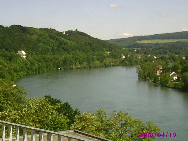 View of Rhine in Waldshut